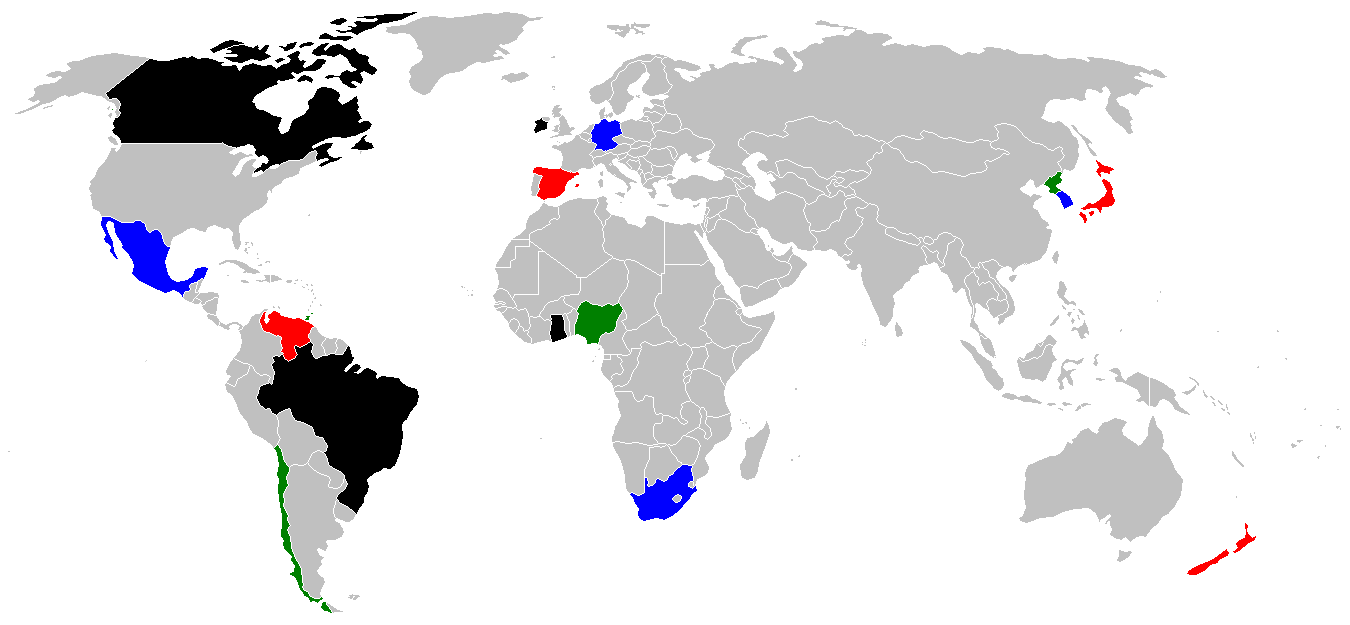 Participants of 2010 FIFA U-17 Women's World Cup